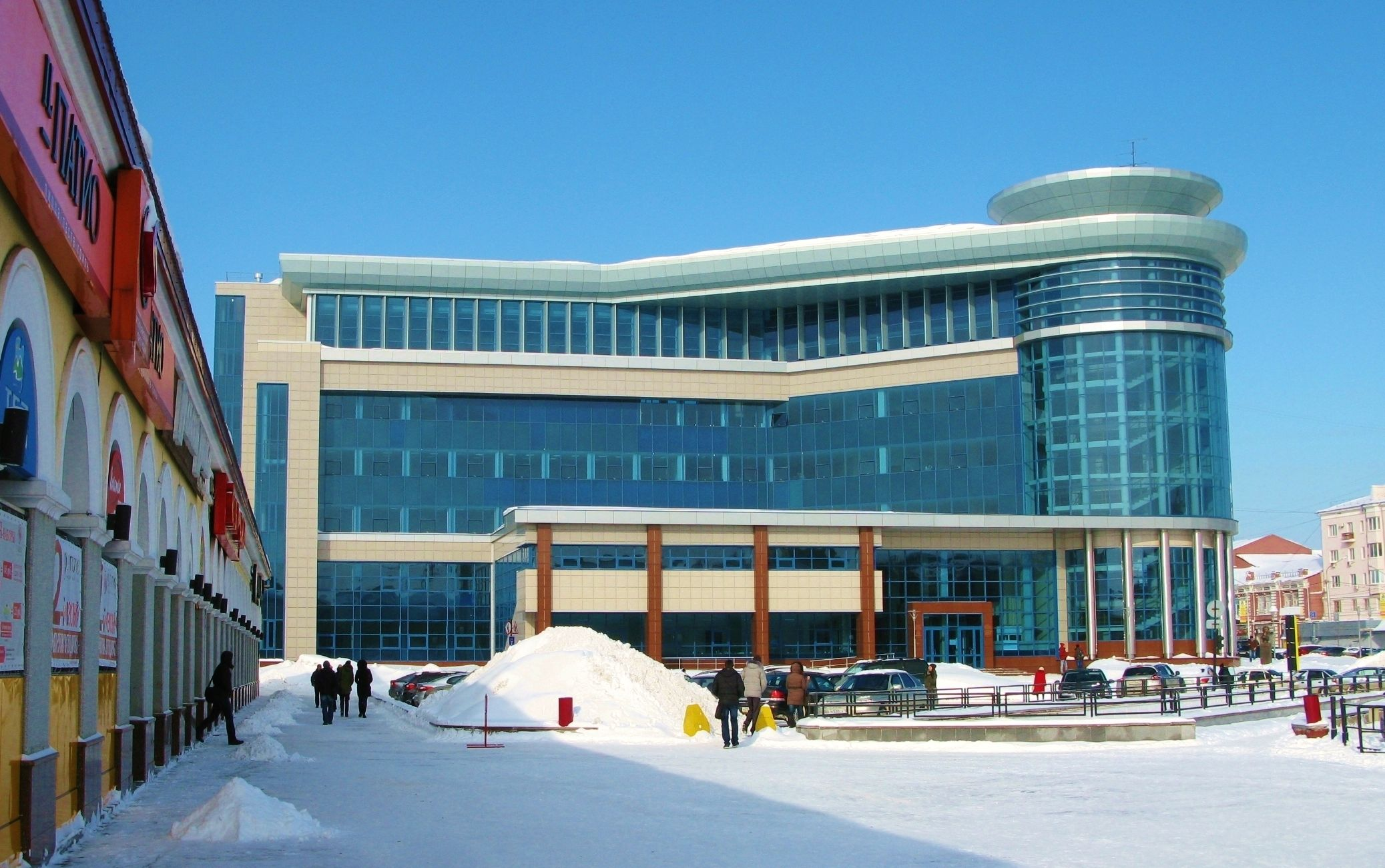 Ufa avia institute